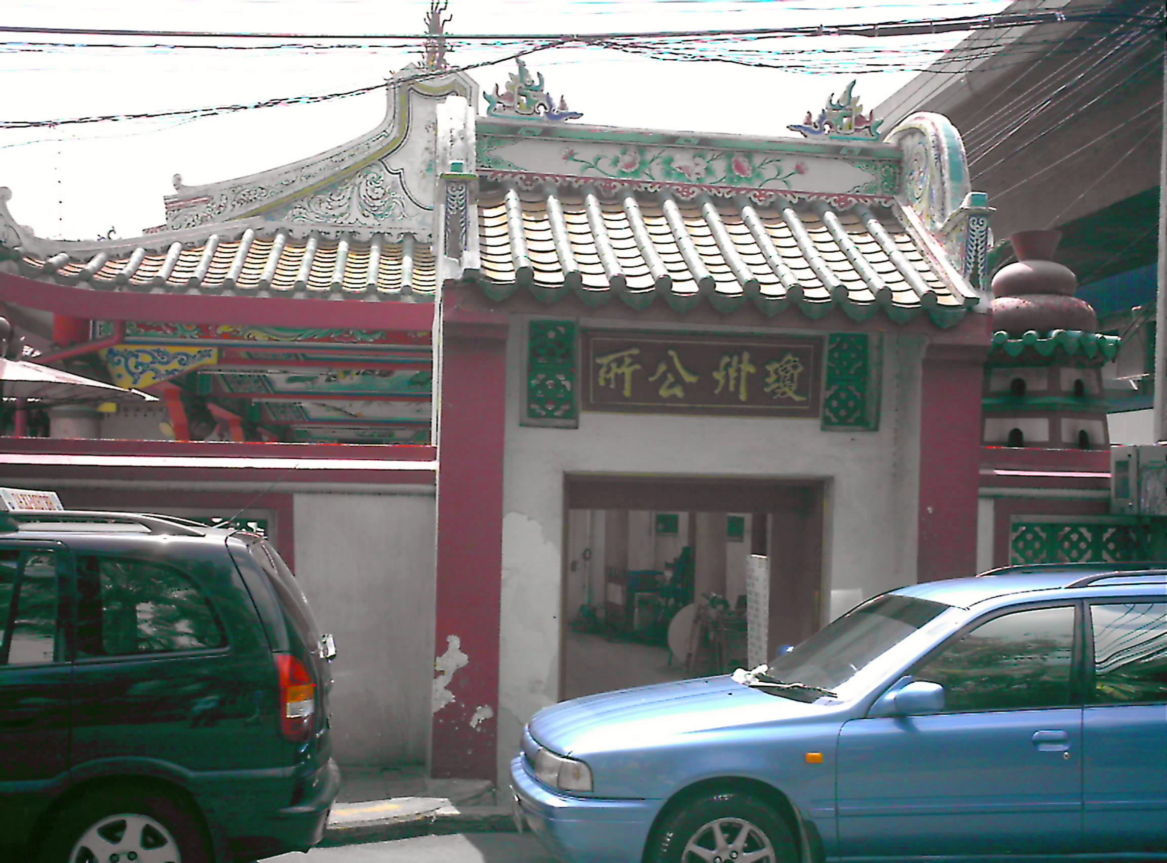 Hainan Temple near Saphan Taksin Station, Bangkok, Thailand. 中文（香港）: 泰國，曼谷，挽叻縣，瓊州公所